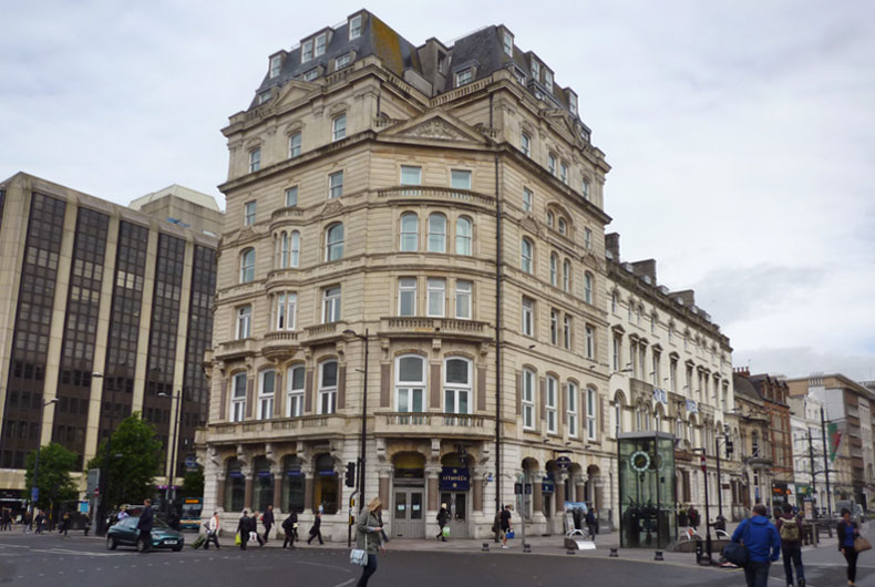 Royal Hotel, St Mary Street, Cardiff, the town's first grand hotel originally built in 1866 and extended in 1890.